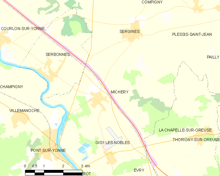 Map of French municipality Michery